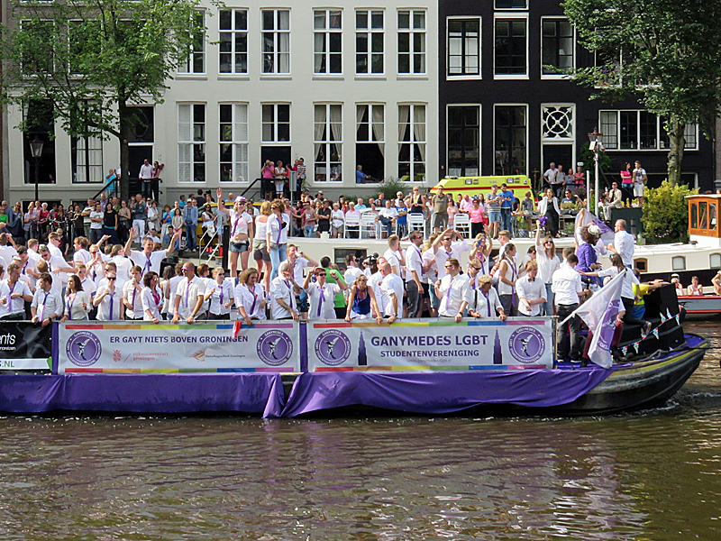 Boat of LGBT student association Ganymedes from Groningen participating in the 2015 Canal Parade of the Amsterdam Gay Pride.